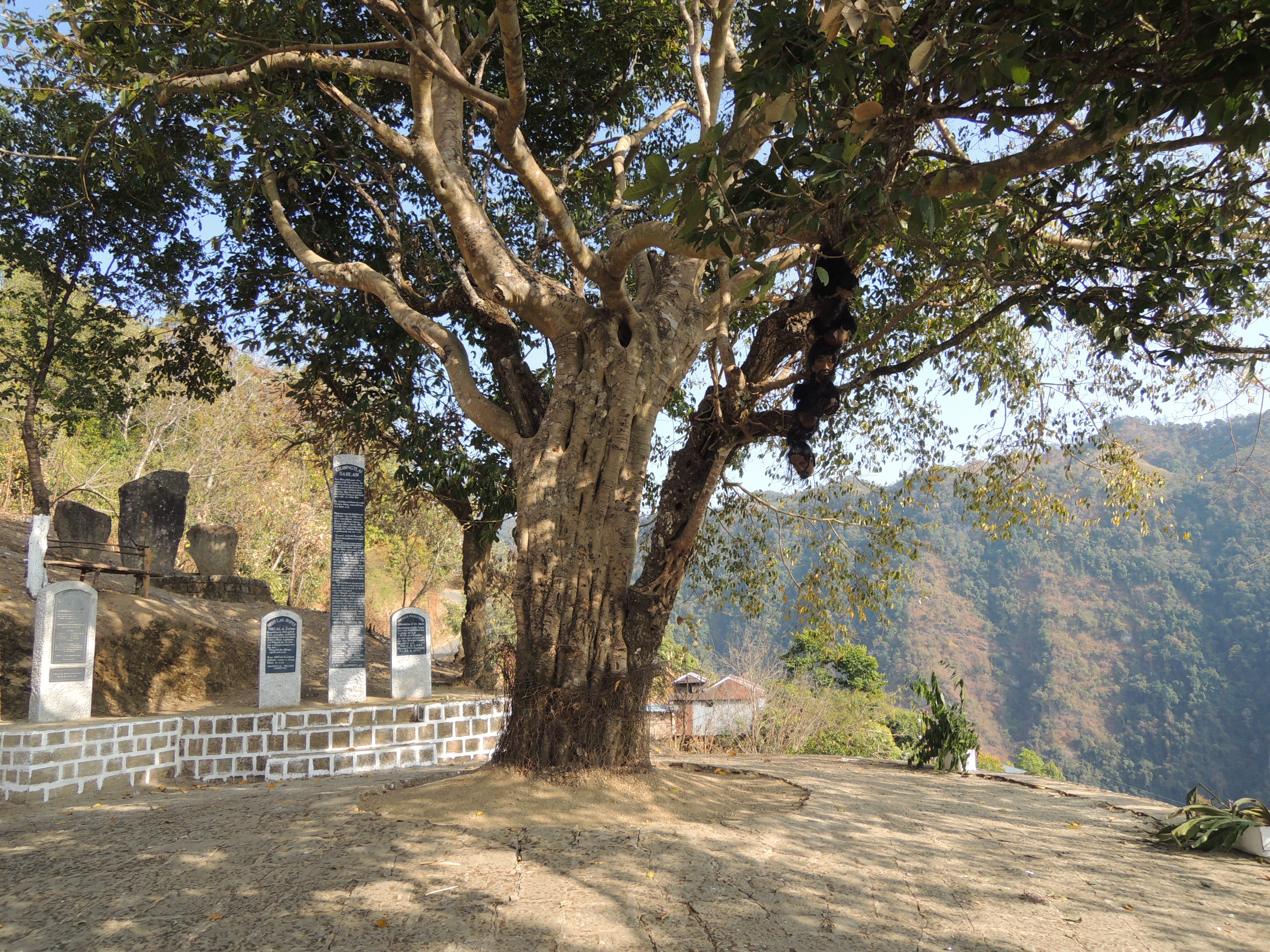 Sahlam